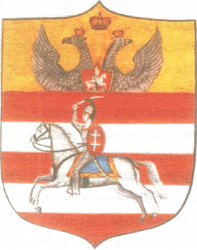 Coat of Arms of Viciebsk Governorate (1840)